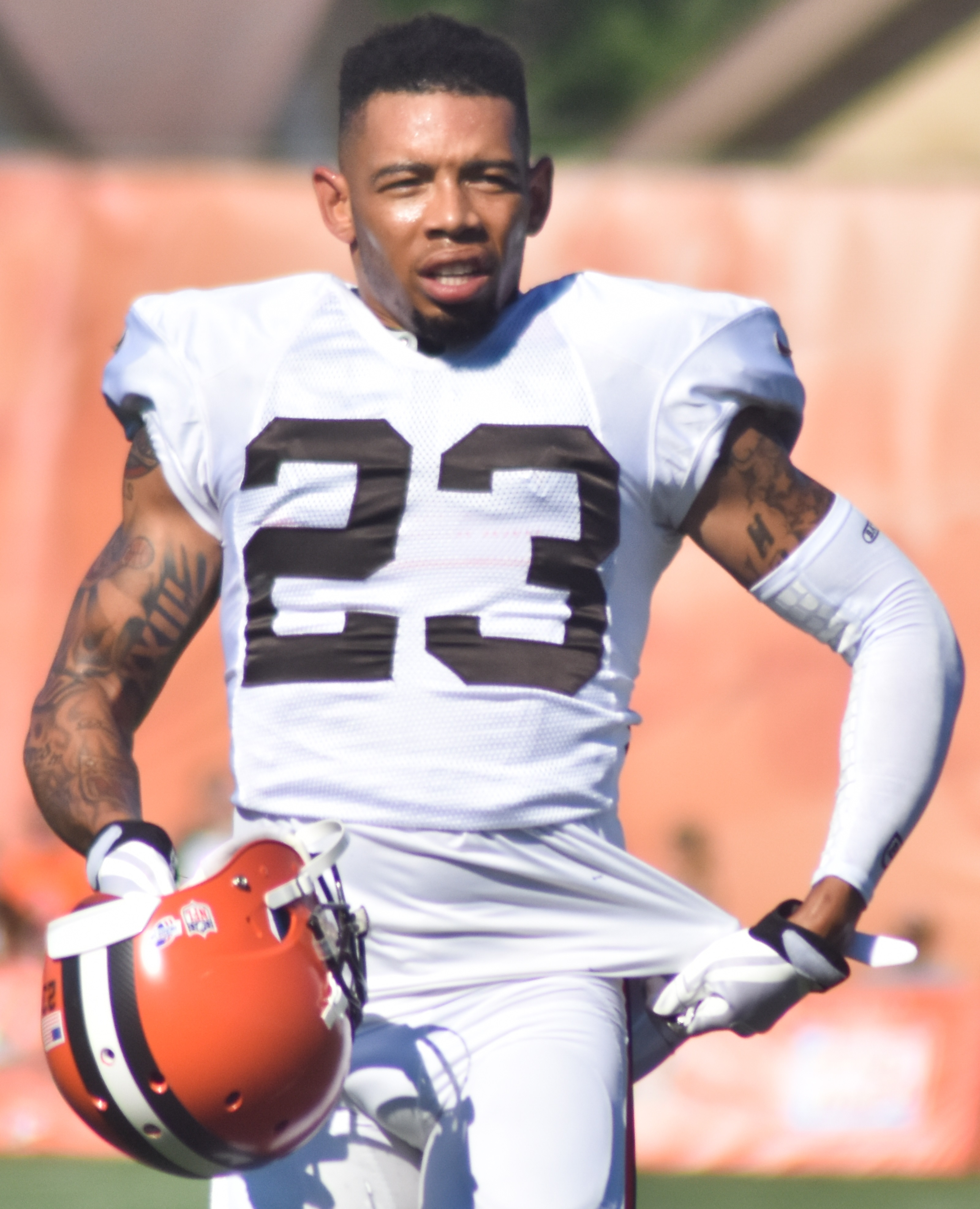 2015 training camp